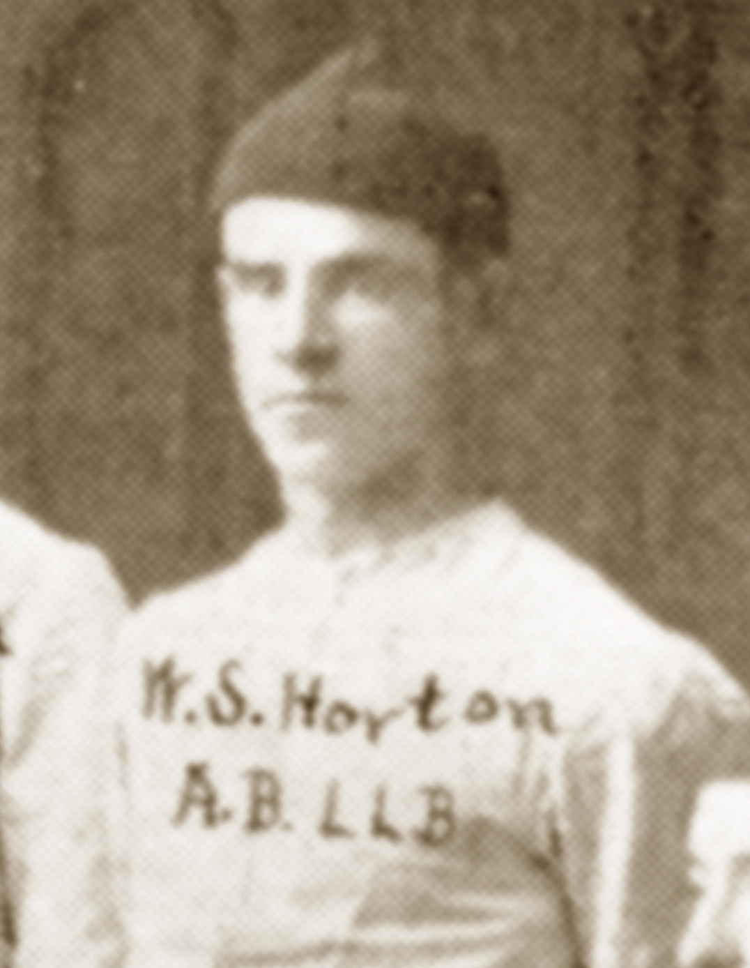 Photograph of Walter S. Horton